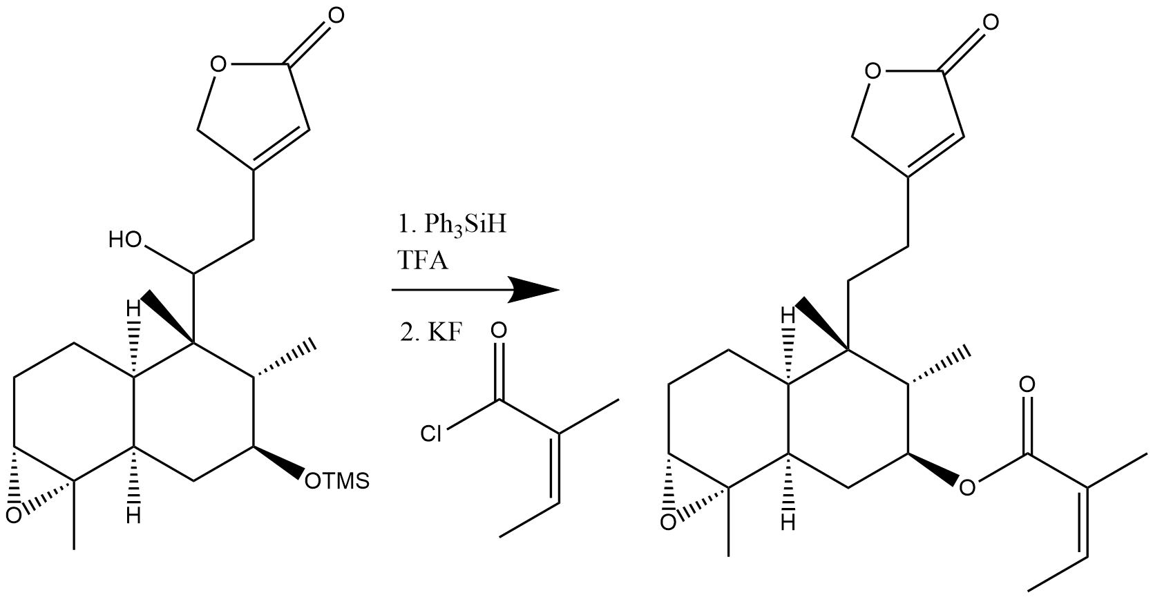 ChemDraw Scheme